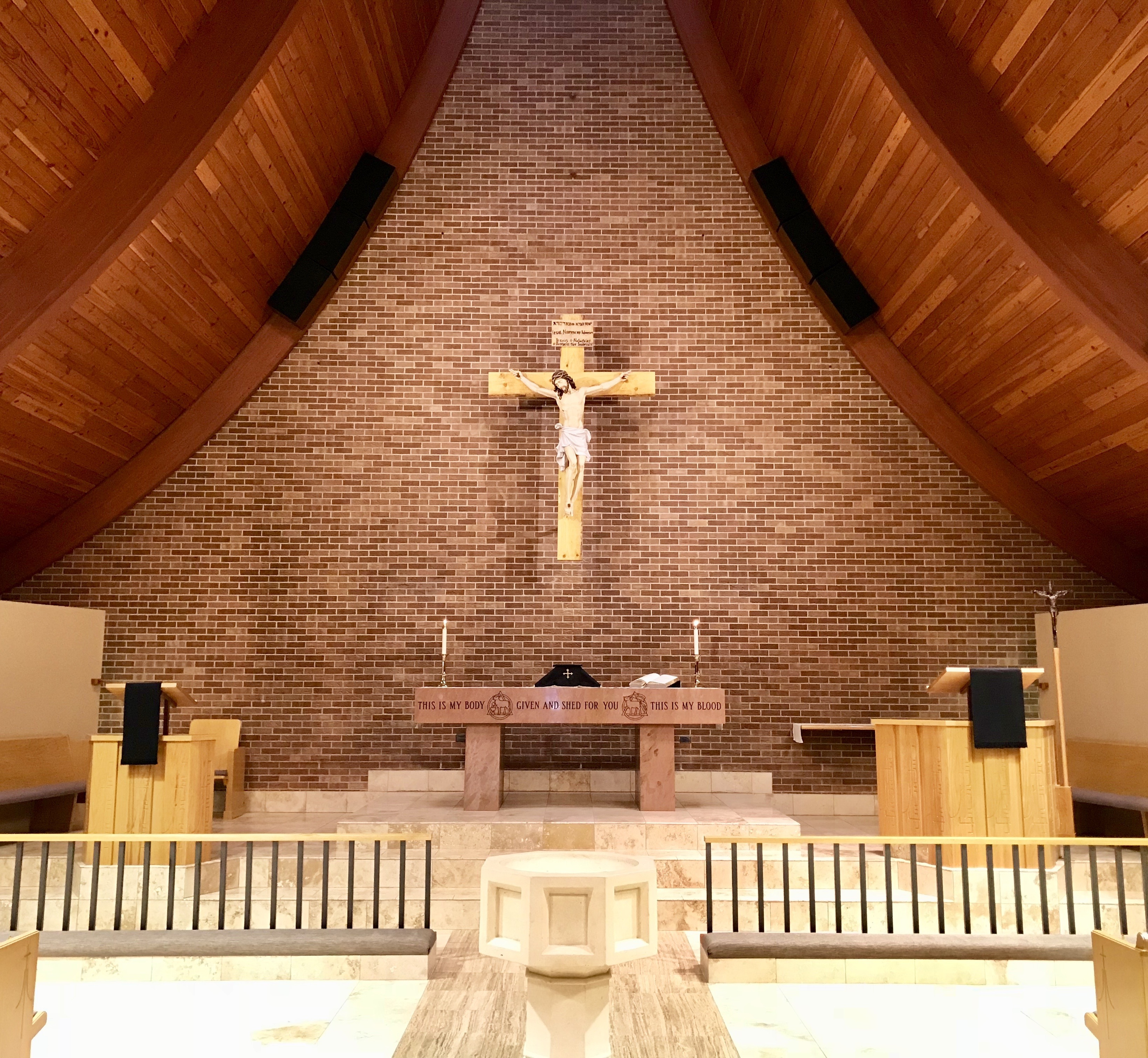 The image depicts the chancel of Trinity Lutheran Church adorned with black paraments on Holy Saturday.